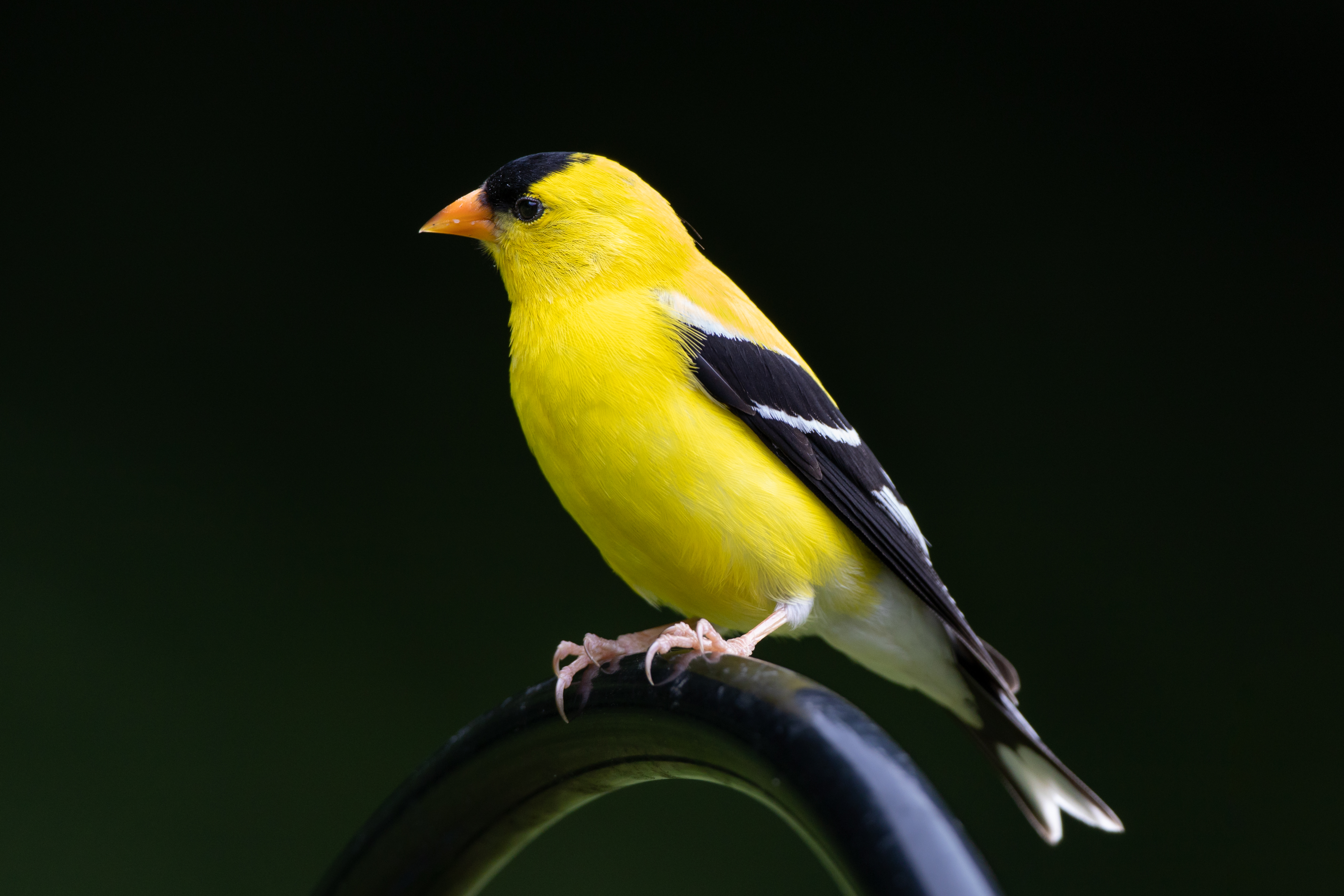 Goldfinch (male), shot in Franklin, TN